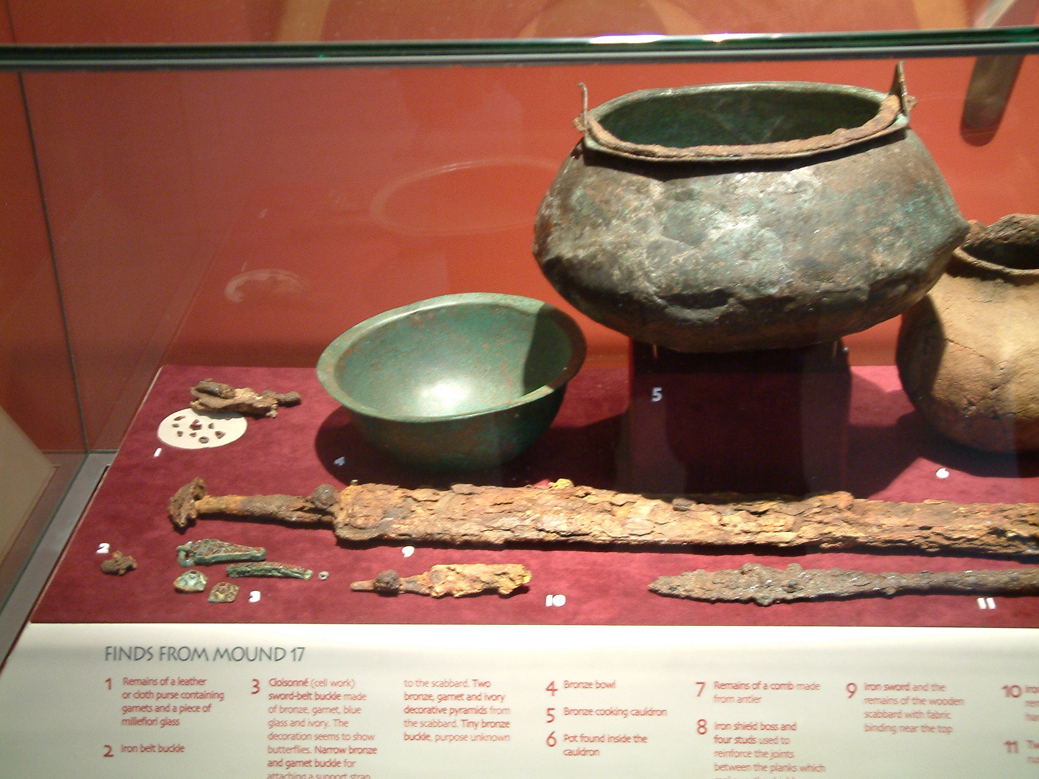 Grave goods from the Sutton Hoo burial mound 17, England.